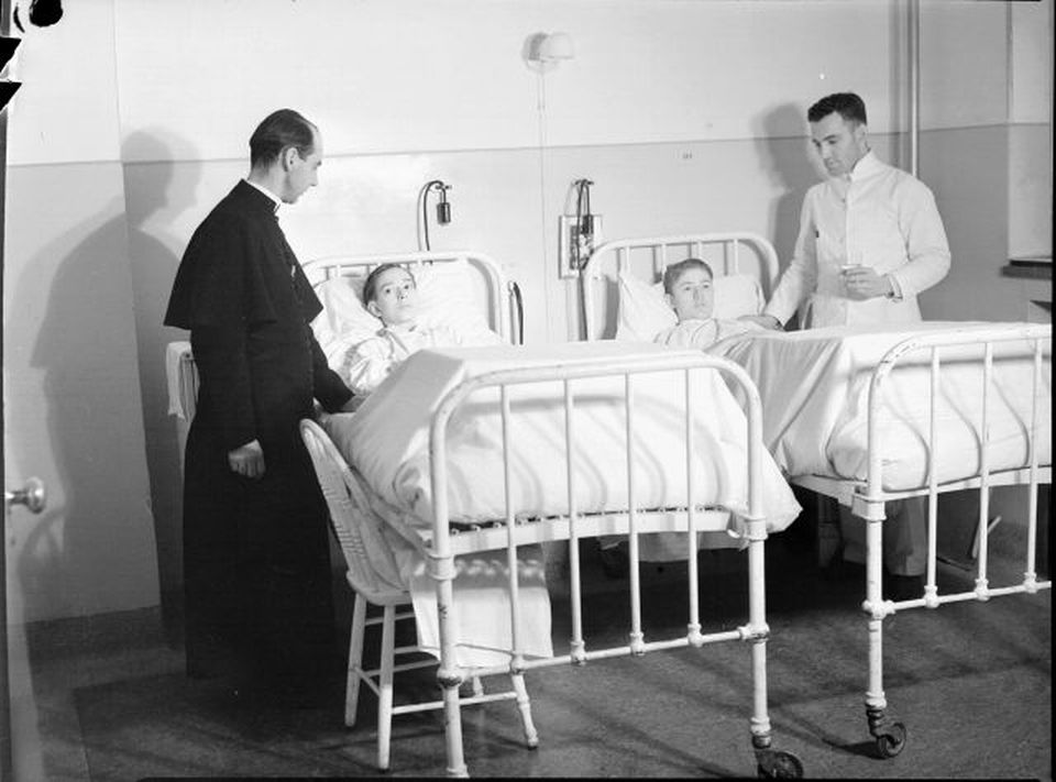 Two children are lying on beds of the Sainte-Justine Hospital in Montreal. Two religious stand at their side.